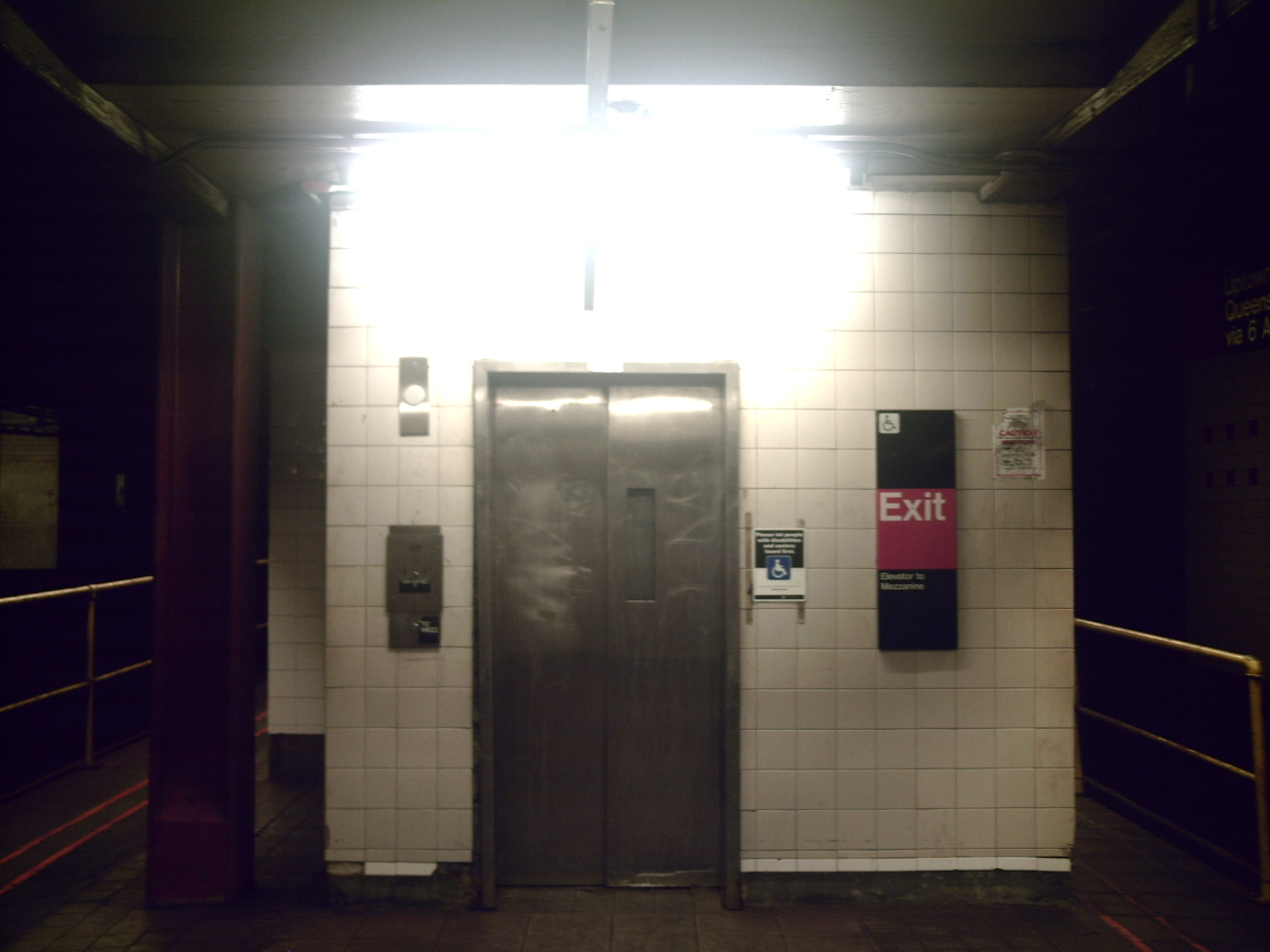 Elevator to mezzanine from the northbound Sixth Avenue platform of 34th Street-Herald Square